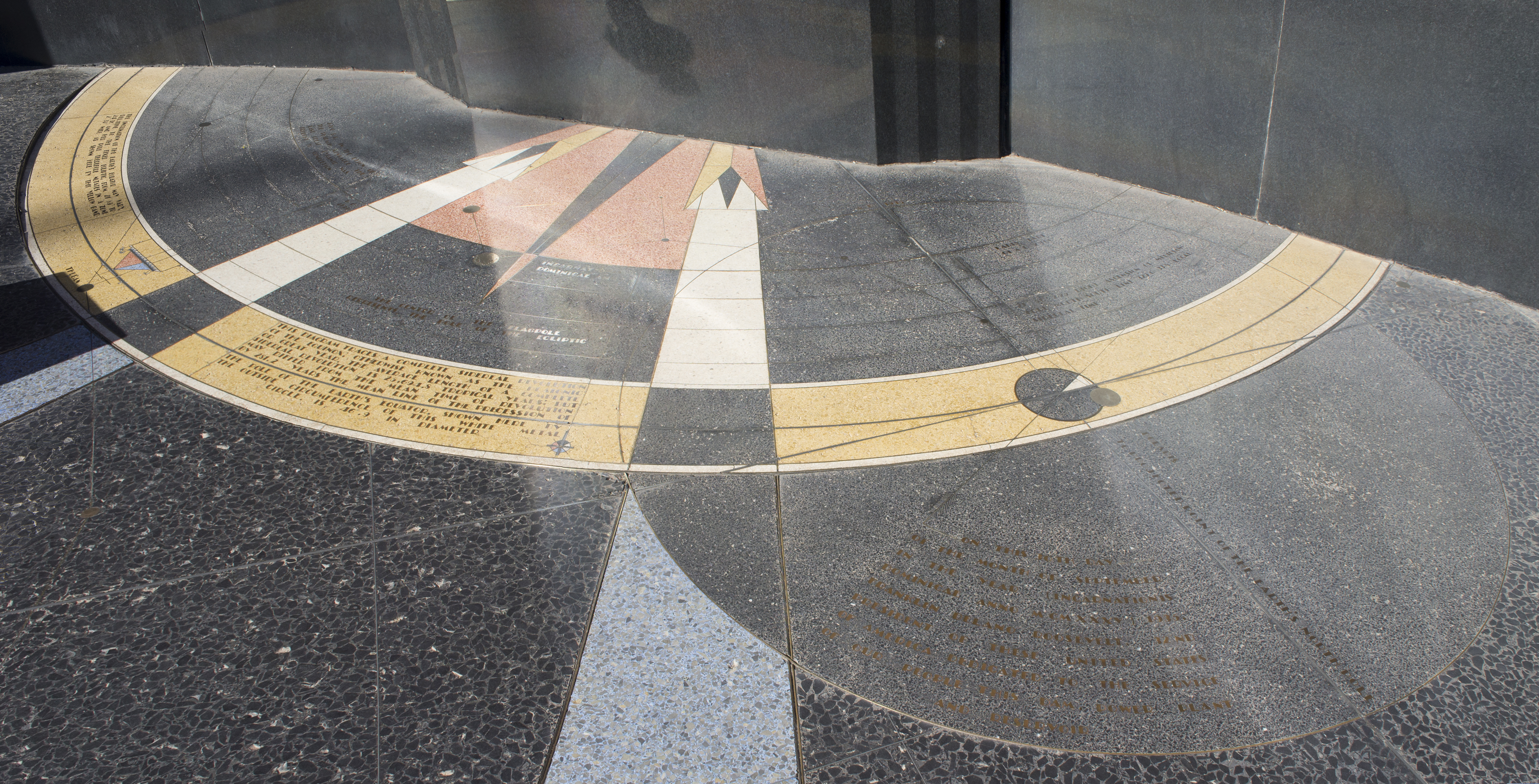 Hoover Dam memorial star map floor, center area. The star map marks the position of the stars as seen from the site of the Hoover Dam on the day it was completed, so that future visitors would understand, even thousands of years in the future when English is no longer spoken and other historical cues are gone.